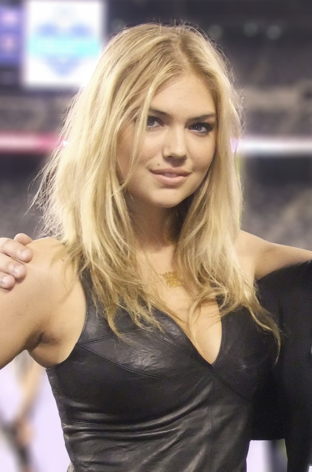 Kate Upton in a black dress during the 2011 Jets VIP draft party. Photographed on April 28, 2011 with a Fujifilm FinePix F72EXR.